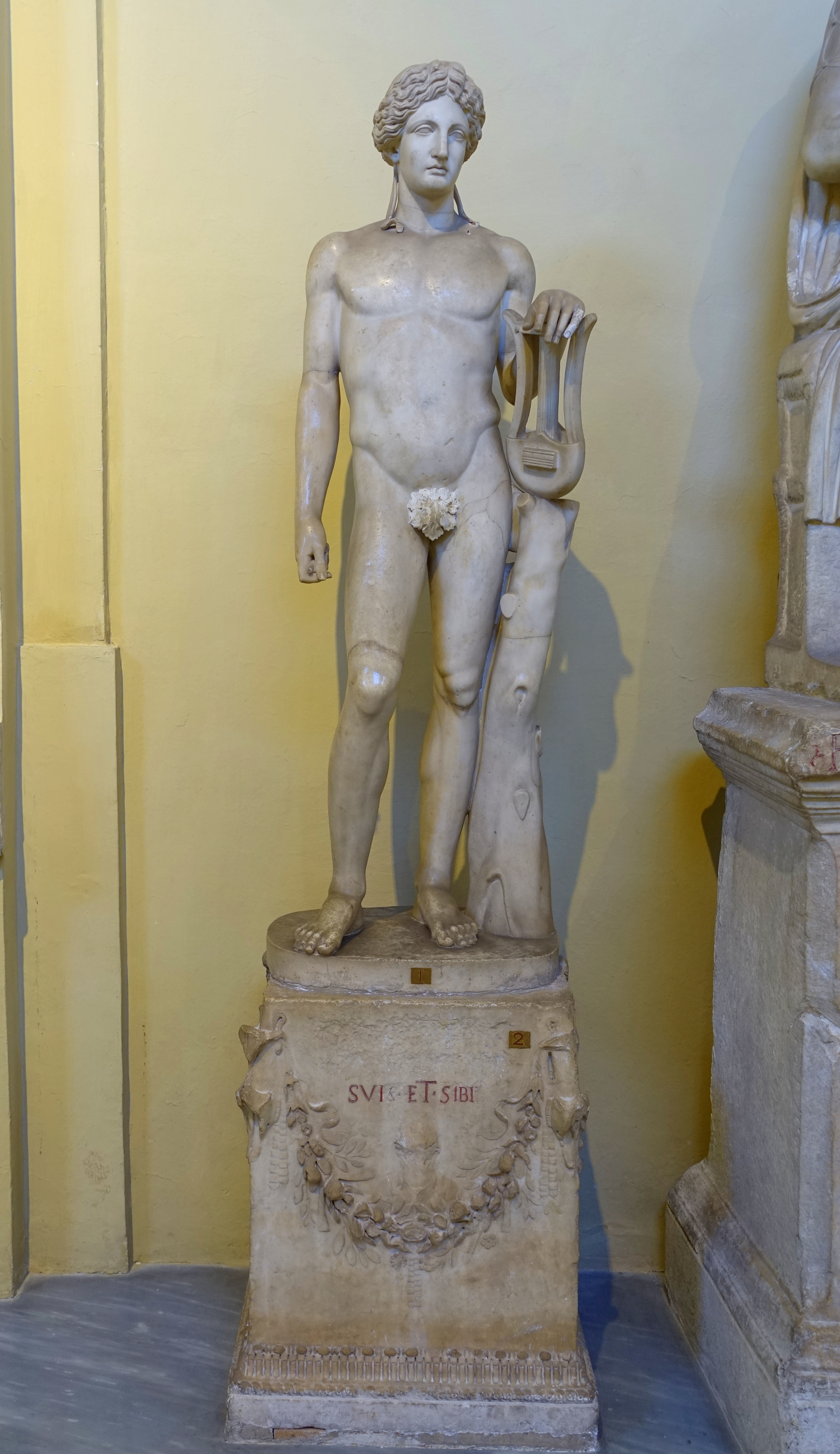 Exhibit in the Museo Chiaramonti - Vatican Museums.